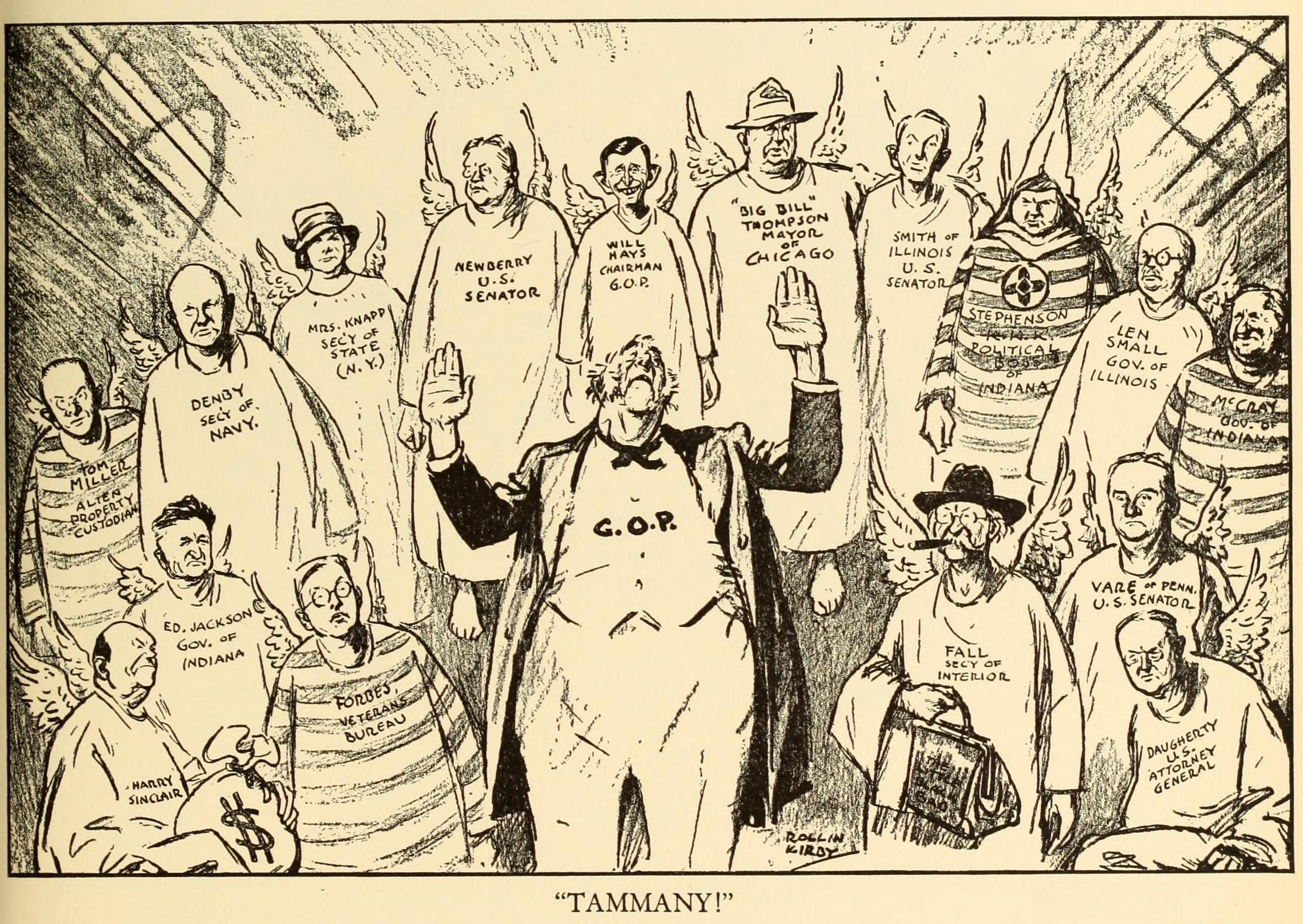 "Tammany!", an editorial cartoon portraying the Republican party as hypocritical for decrying the corruption of the Democratic Tammany Hall political machine while many Republicans were accused of corrupt acts themselves. Winner of the 1929 Pulitzer Prize for Editorial Cartooning.